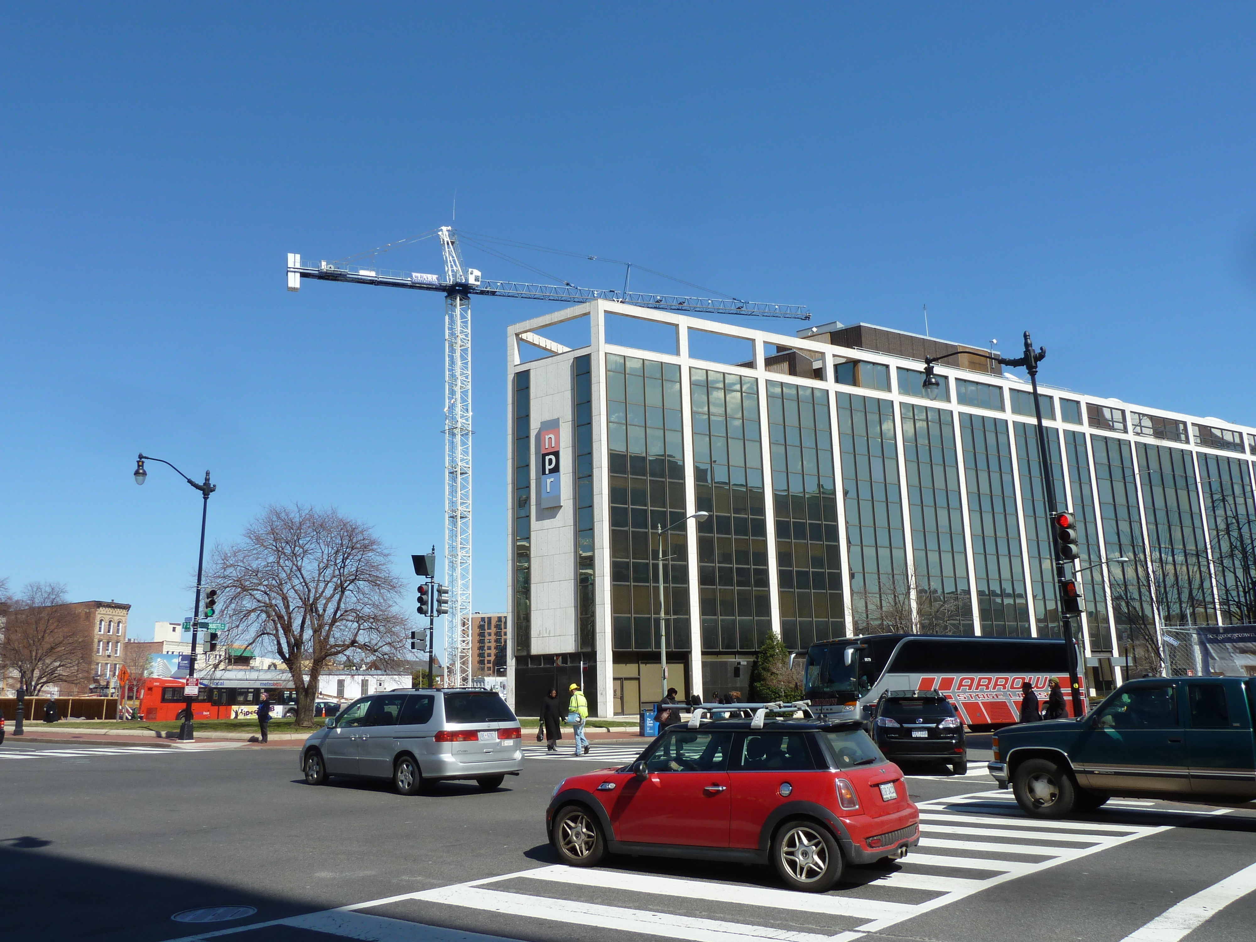 NPR headquarters. That is all.